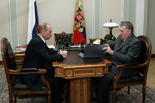 Vladimir Putin with Vladimir Zhirinovsky, leader of the Liberal Democratic Party of Russia.